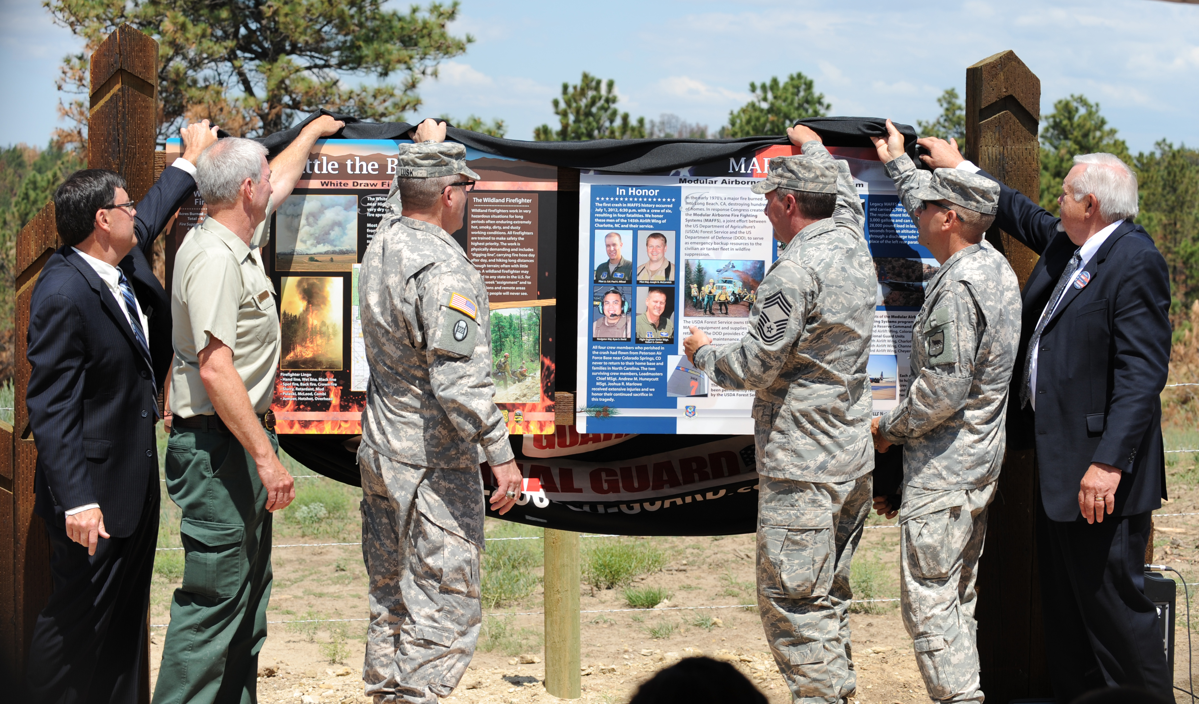 From left to right: South Dakota Lt. Gov. Matt Michels, Craig Bobzien, Black Hills National Forest supervisor, U.S. Army Maj. Gen. Gregory Lusk, adjutant general of the North Carolina(N.C.) National Guard, U.S. Air Force Chief Master Sgt. Andy Huneycutt, Modular Airborne Fire Fighting System 7 crew member, Maj. Gen. Tim Reisch, adjutant general of the South Dakota National Guard and Michael Ortner, Fall River County Commission, unveil an interpretive sign near Edgemont, S.D., July 1, 2013. The sign honors the airmen of the N.C. Air National Guard C-130 aircraft that crashed while supporting the White Draw Fire July 1, 2012